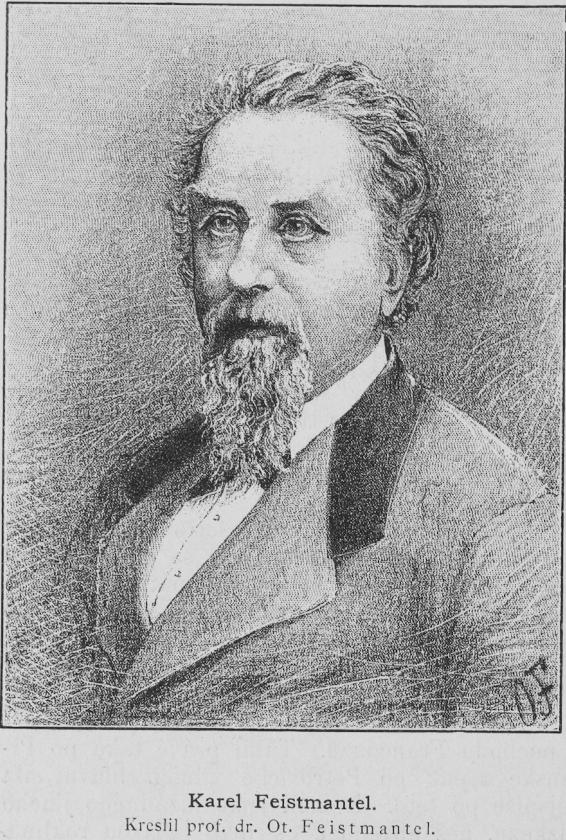 Portrait of Karel Feistmantel (1819 - 1885), Czech geologist and paleontologist